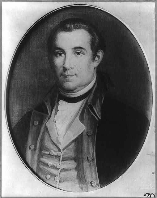 Portrait of Lieutenant Colonel Eleazer Oswald of the 2nd Continental Artillery Regiment. Source is the Library of Congress, Washington DC.